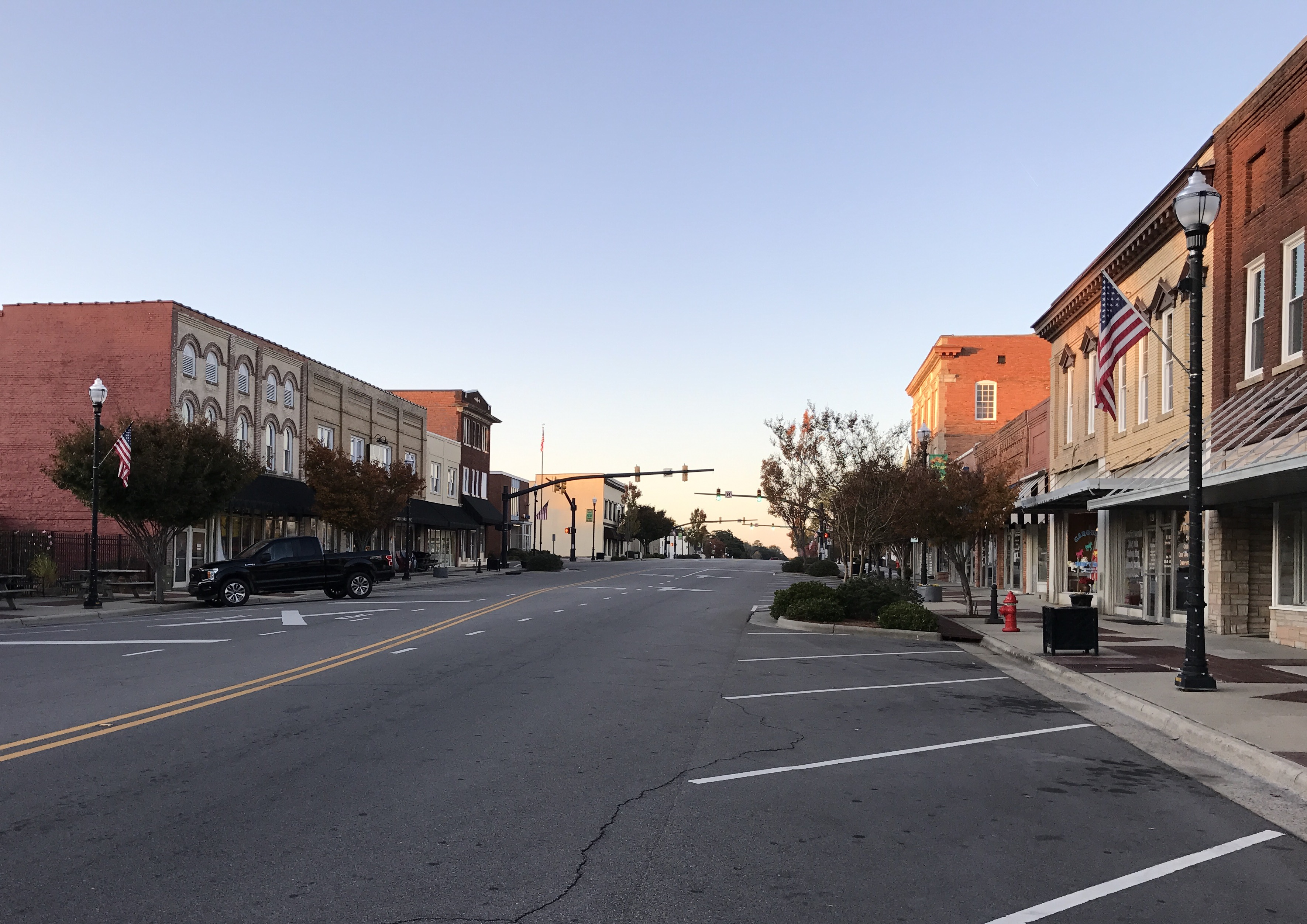 Town of Raeford